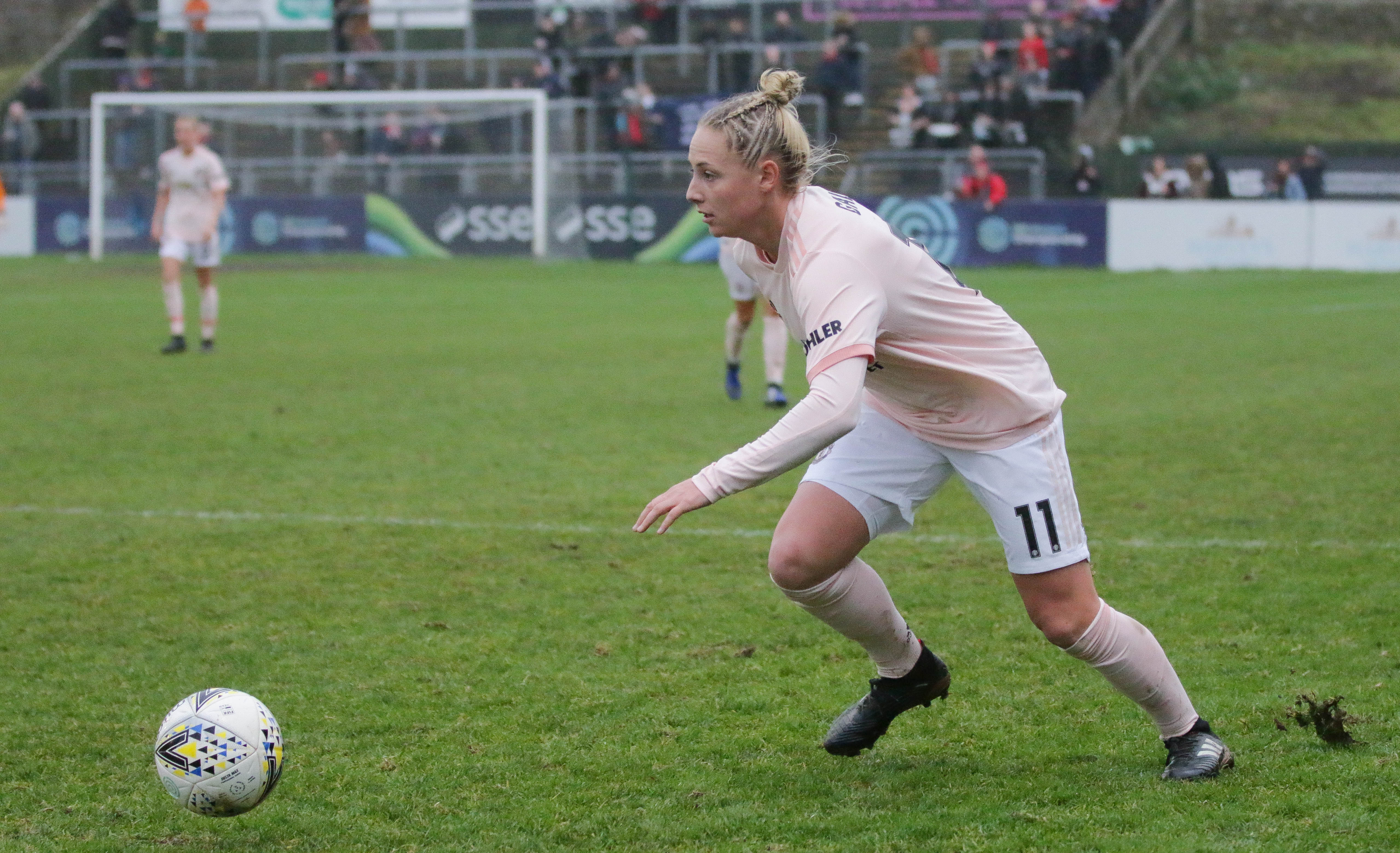 Manchester United's Leah Galton